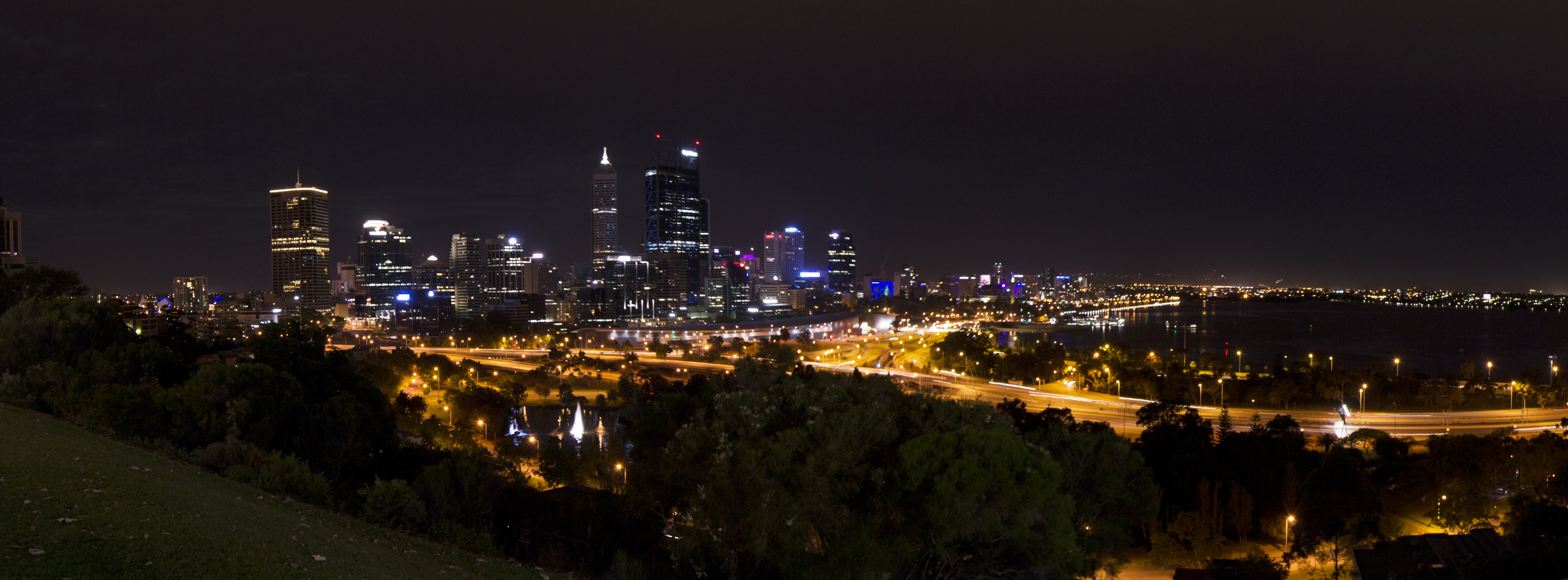 Perth at night viewed from Kings Park